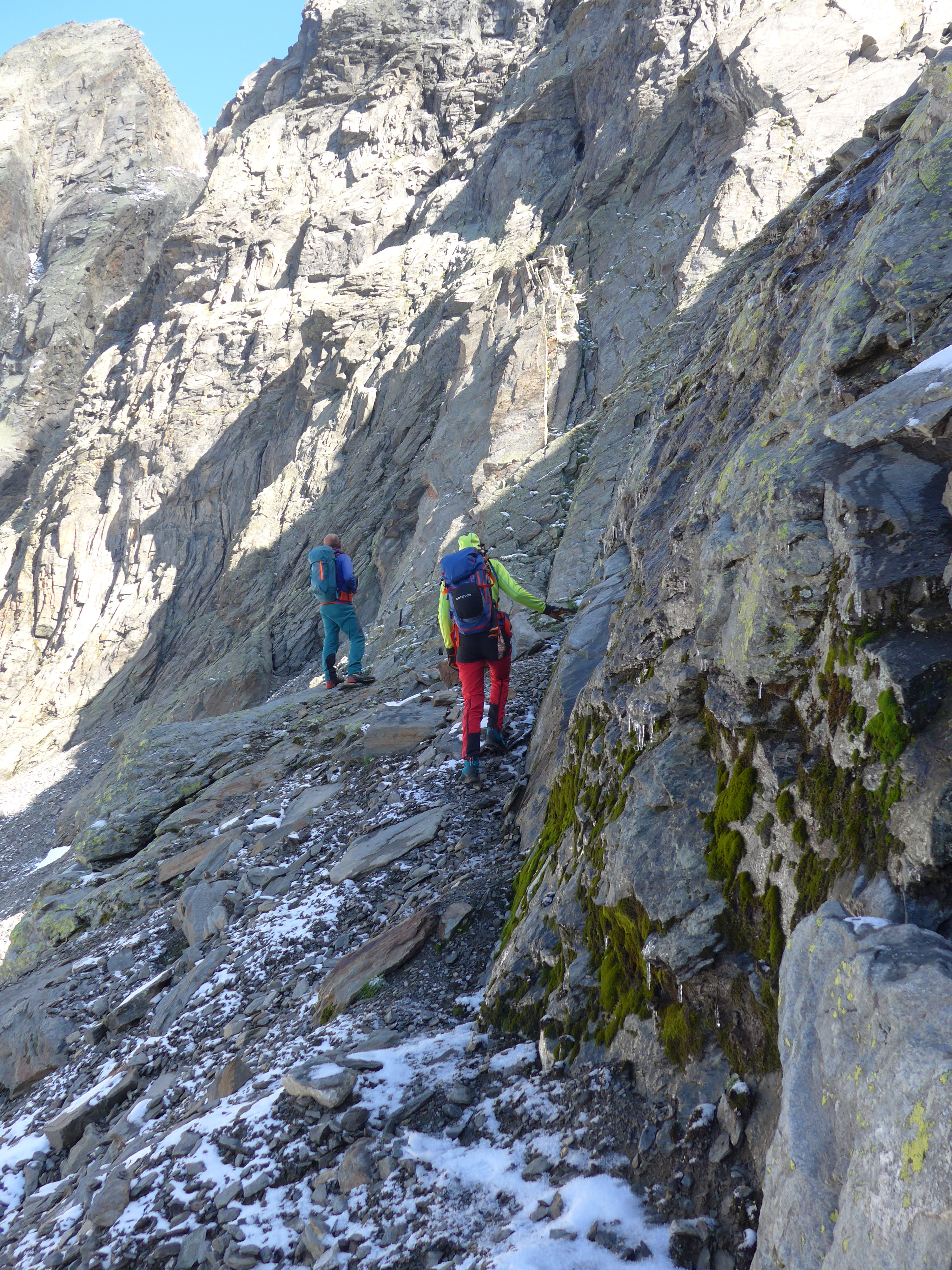 =In the cirque southeast of Durreck, left in the background the southwestern seconary, the Zwieselnöckl